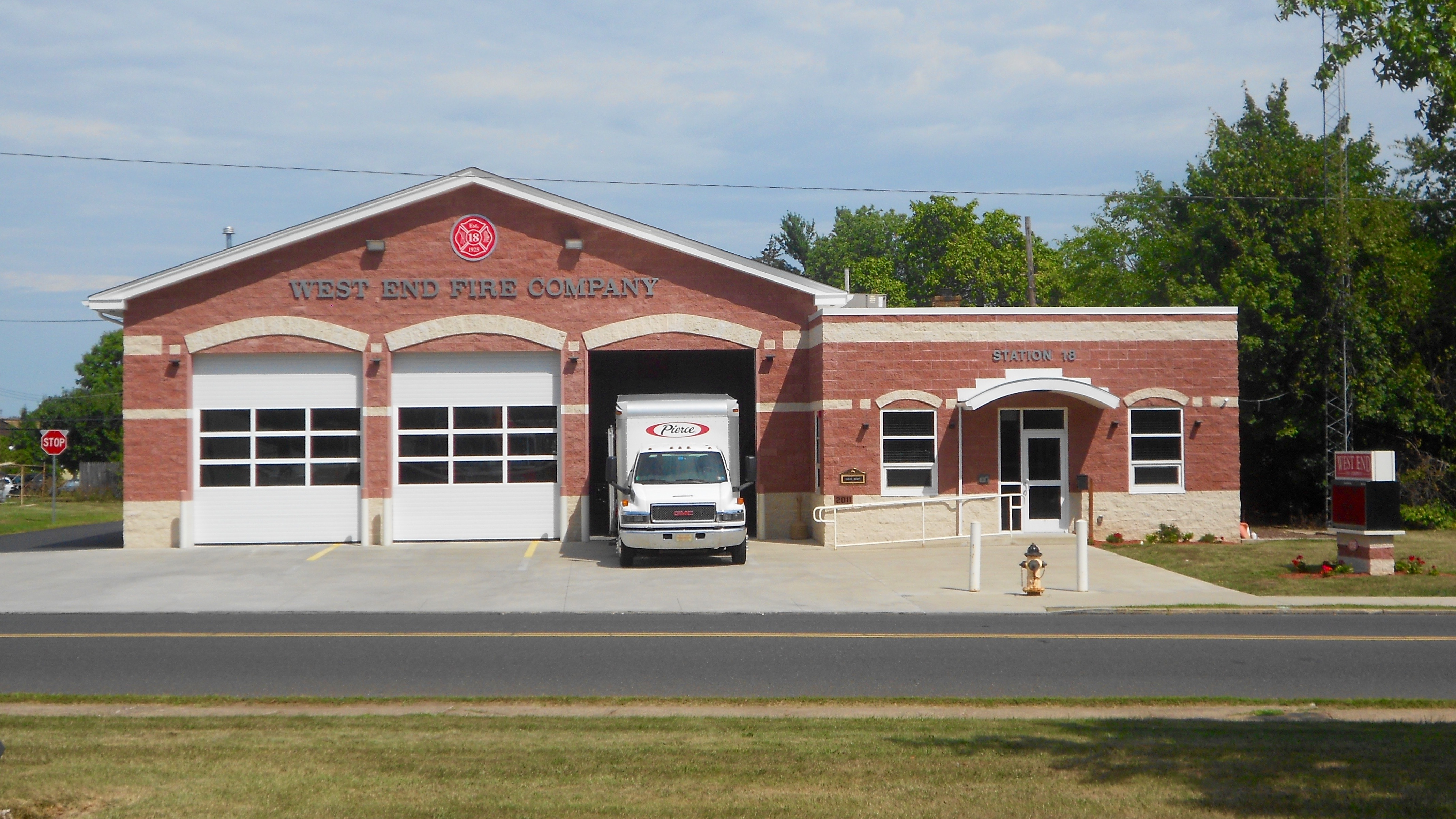 West End Fire Company in Quakerstown, Pennsylvania